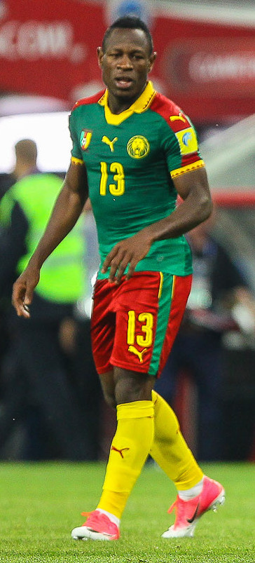 Cameroon vs Chile (0-2). FIFA Confederations Cup 2017